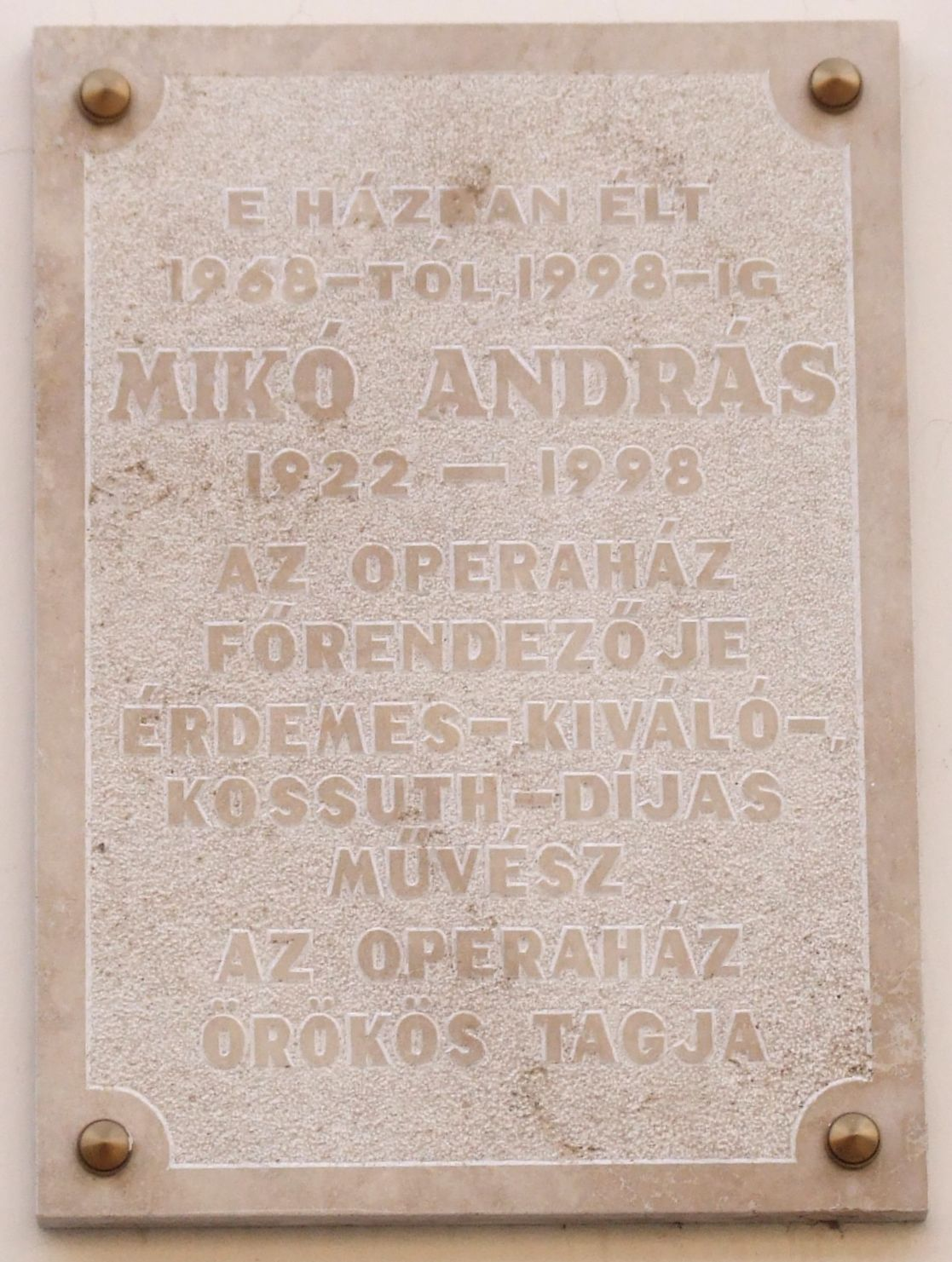 András Mikó commemorative plaque in Budapest District I, Úri Street No 44-46